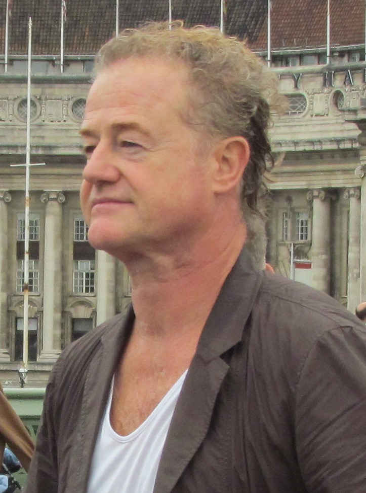 Owen Teale in Whitehall, London, England.